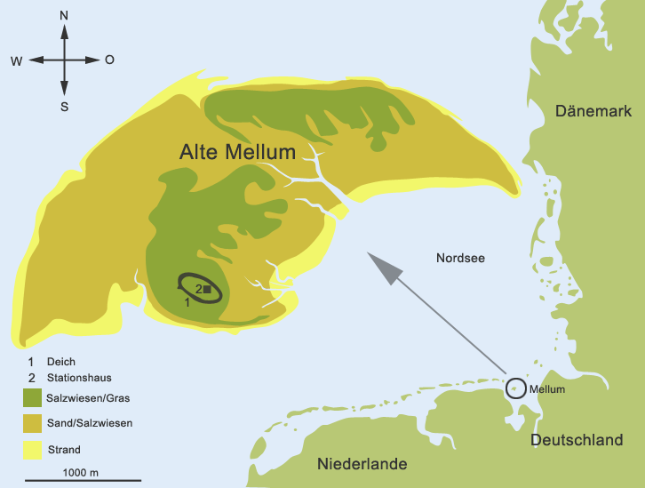 Mellum island, Germany